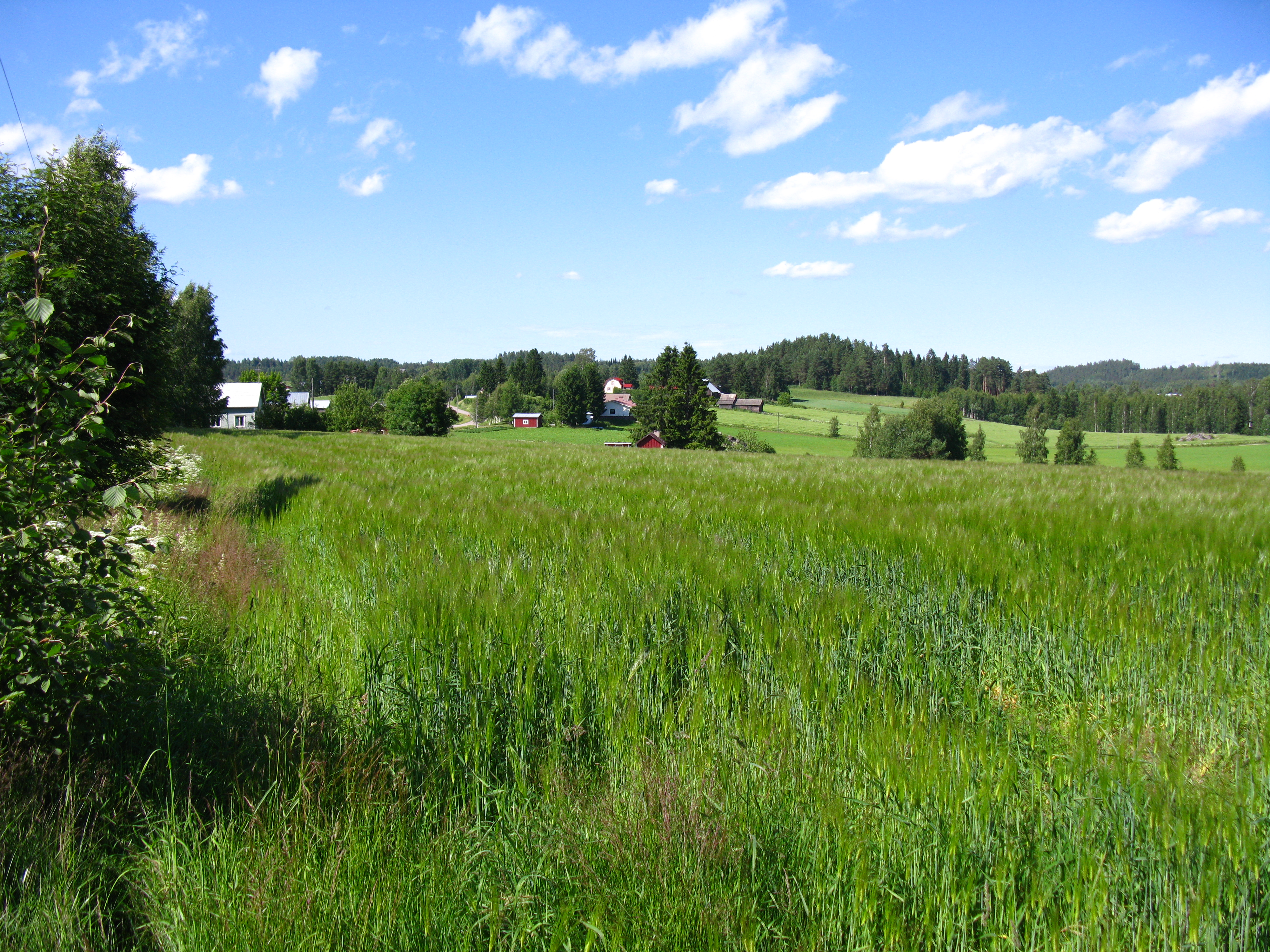 The village of Rasvaniemi, Parikkala, Finland